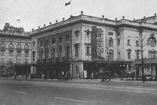 Imperial Garden Theater in 1933